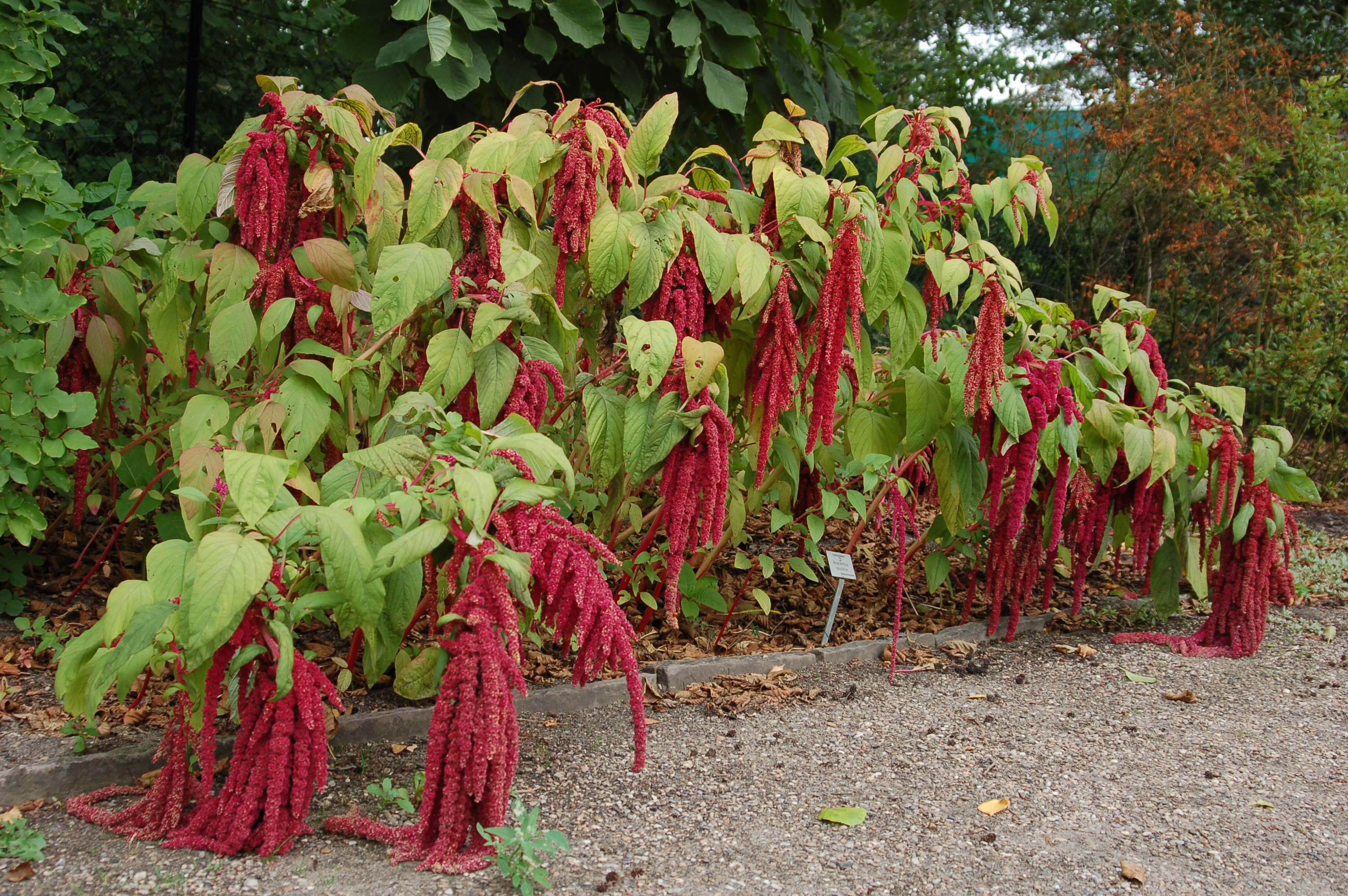 Amaranthus caudatus - Botanical Garden Bremen